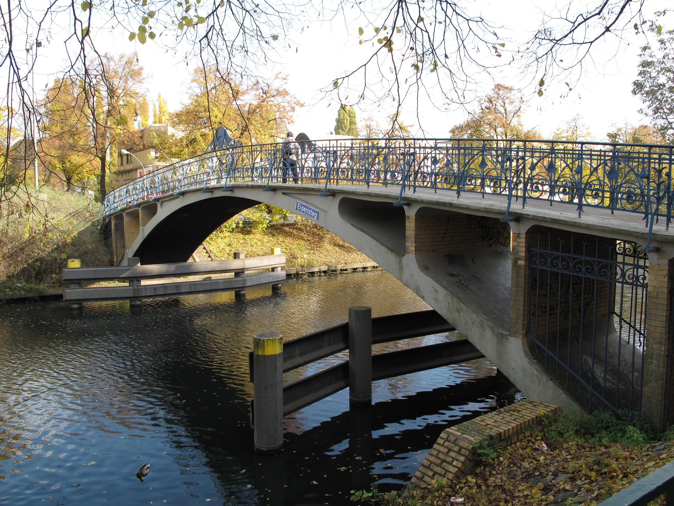 The Elsensteg is a footbridge in Berlin-Neukölln crossing the Neuköllner Schiffahrtskanal (canal). The bridge was probably built in 1906.